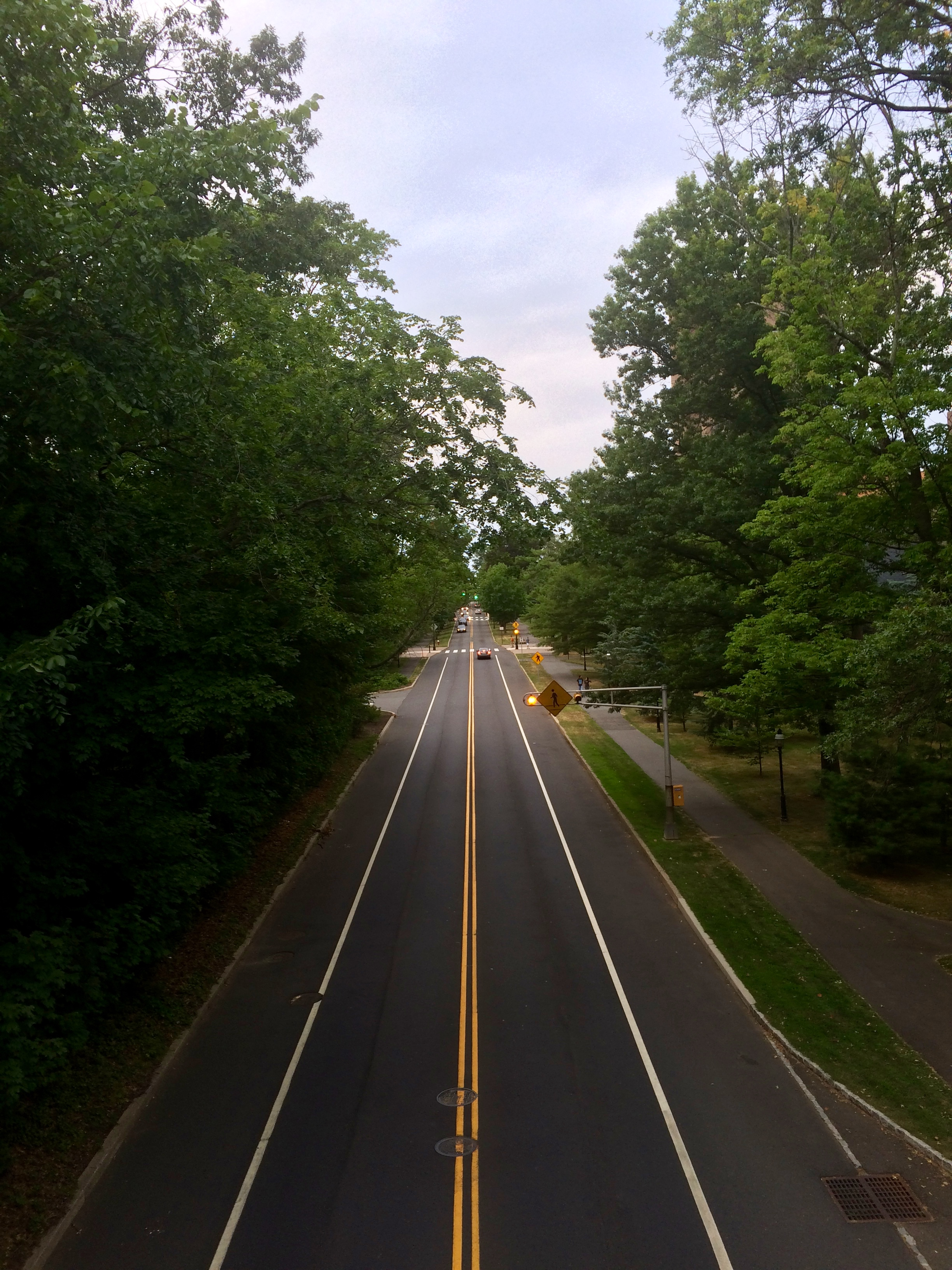 Washington Road from Streicker Bridge, a pedestrian designed by Christian Menn on the campus of Princeton University